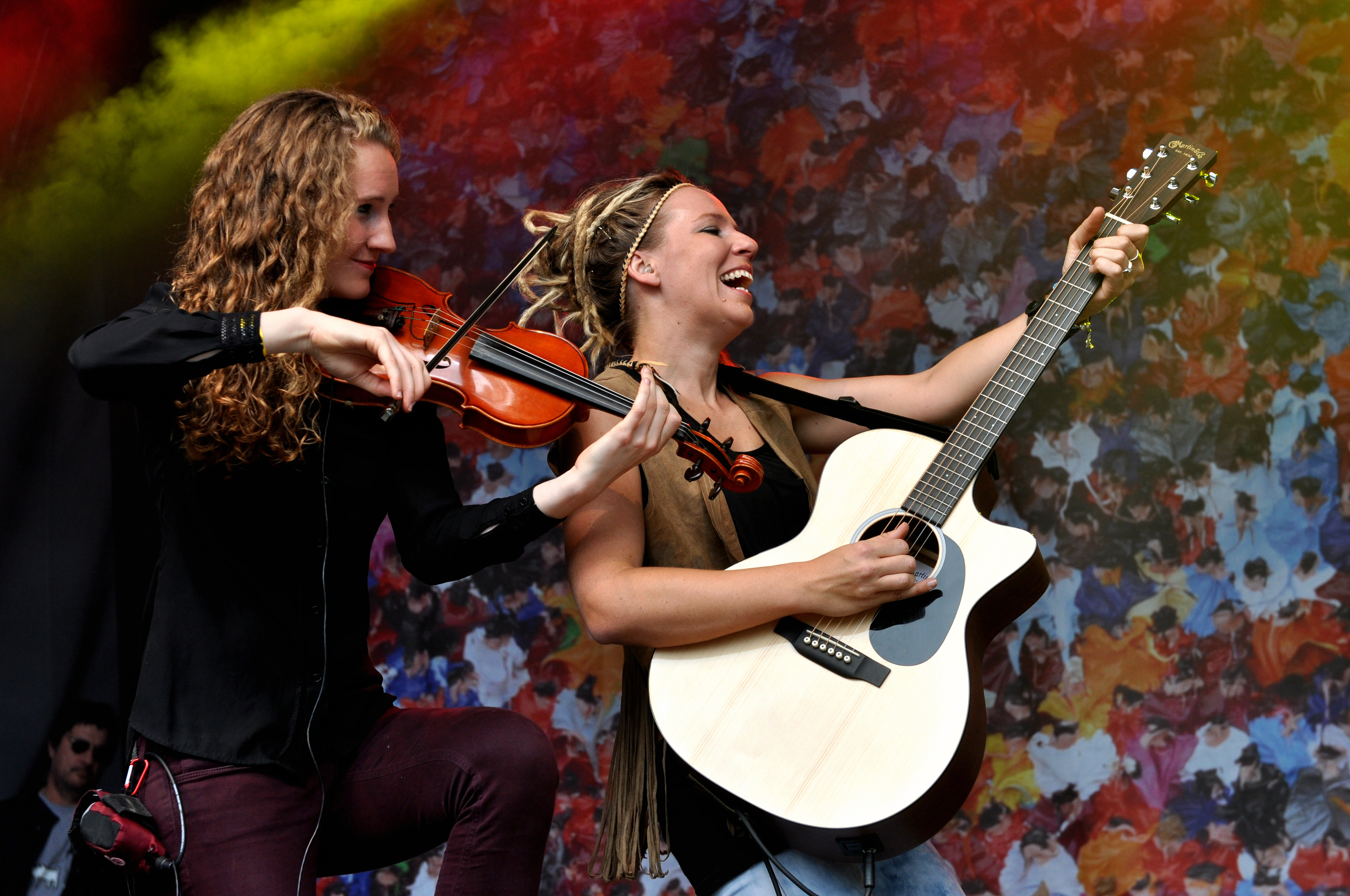 Toby (AUS), Toby Beard & Band, Anne Bakker, Schuett island stage, 40th music festival 'Bardentreffen' 2015 at Nuremberg, Germany Festivalsommer This photo was created with the support of donations to Wikimedia Deutschland in the context of the CPB project "Festival Summer".